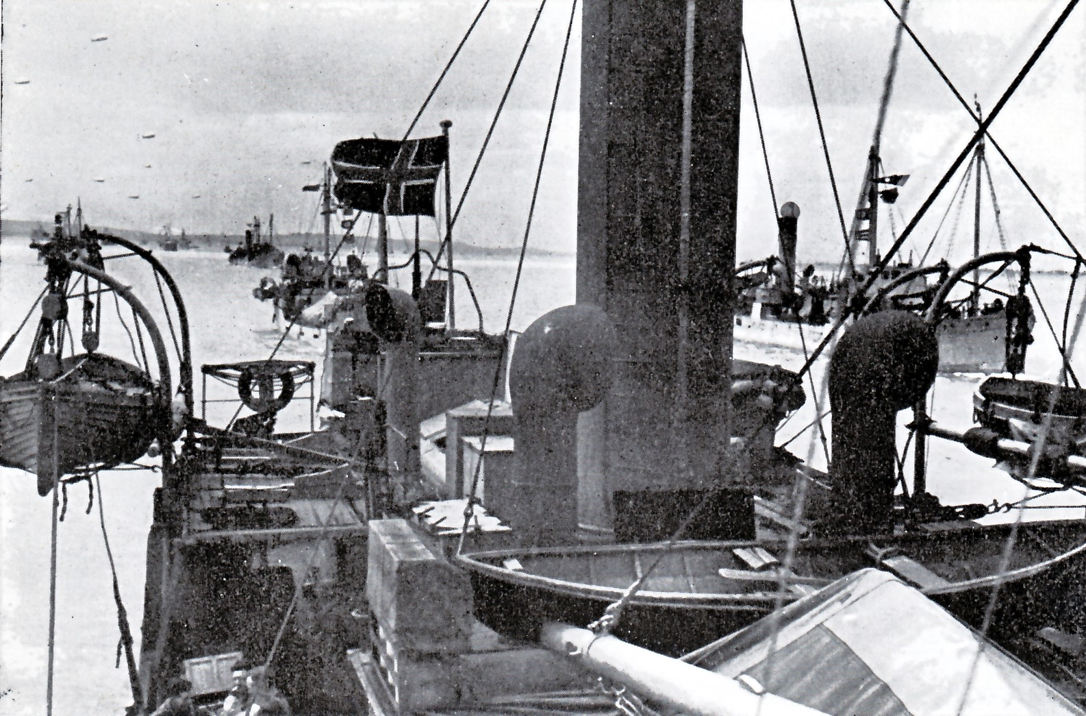 Convoy on its way to support the Normandy invasion.